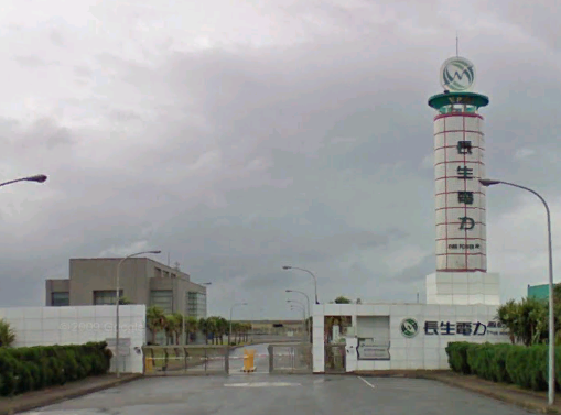 Changsheng Gas-Fired Power Plant, Luzhu Township, Taoyuan County, Taiwan